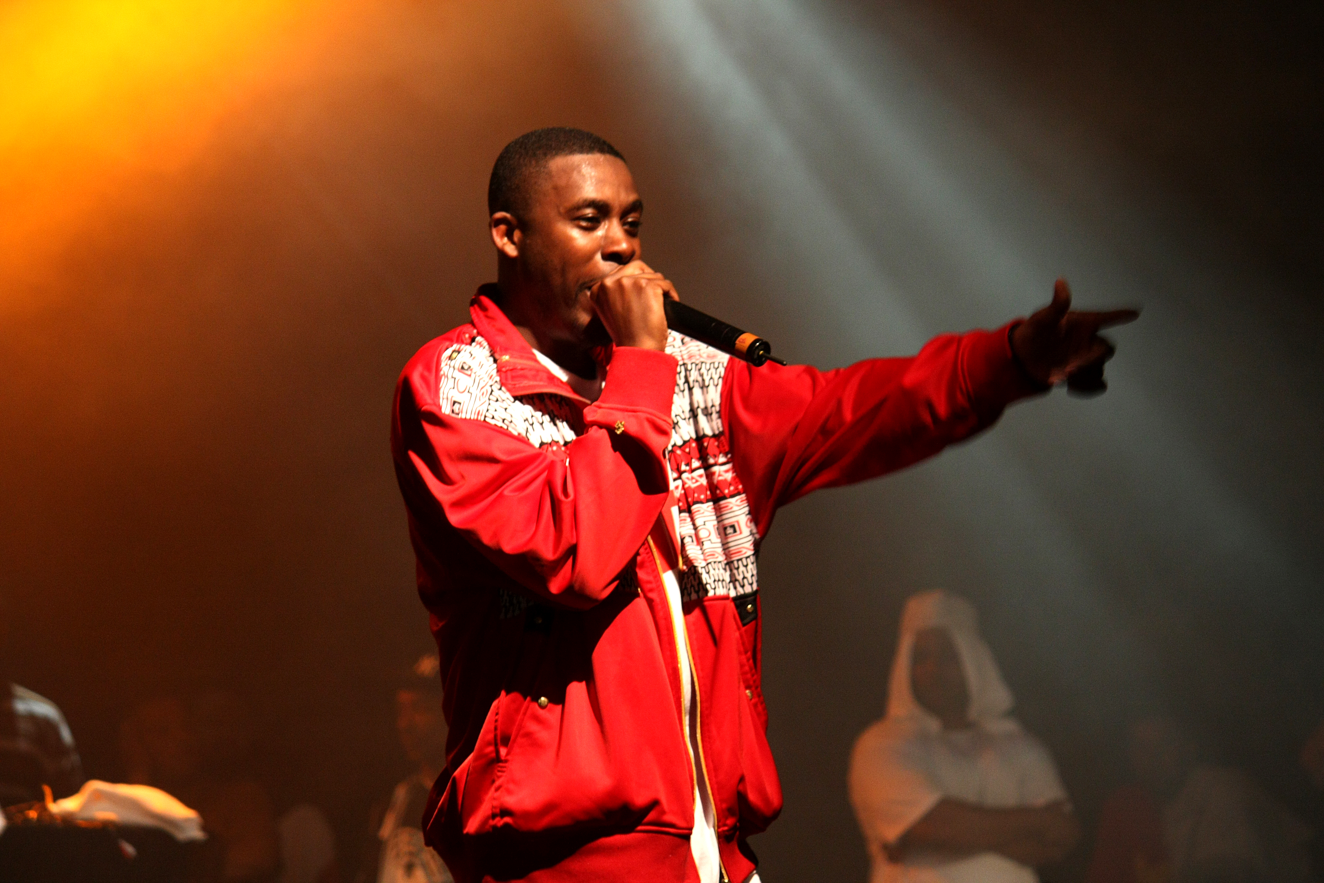 GZA performing at the Paid Dues hip hop festival at the Nokia Theatre in New York City.